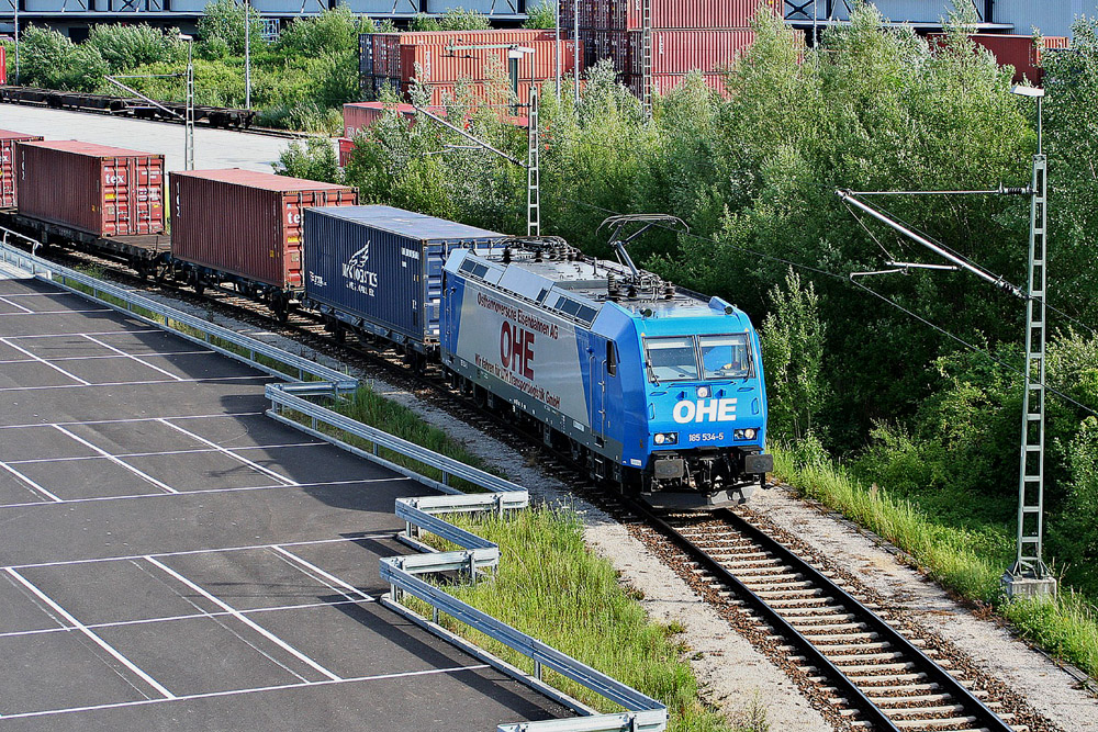 A class 185 locomotive, owned by private railroad company OHE, on a track of the rail freight center Ingolstadt.